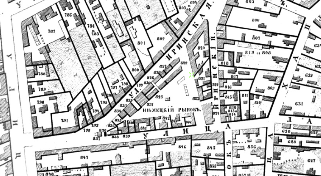 1852-1853 map of German Market area in Moscow.